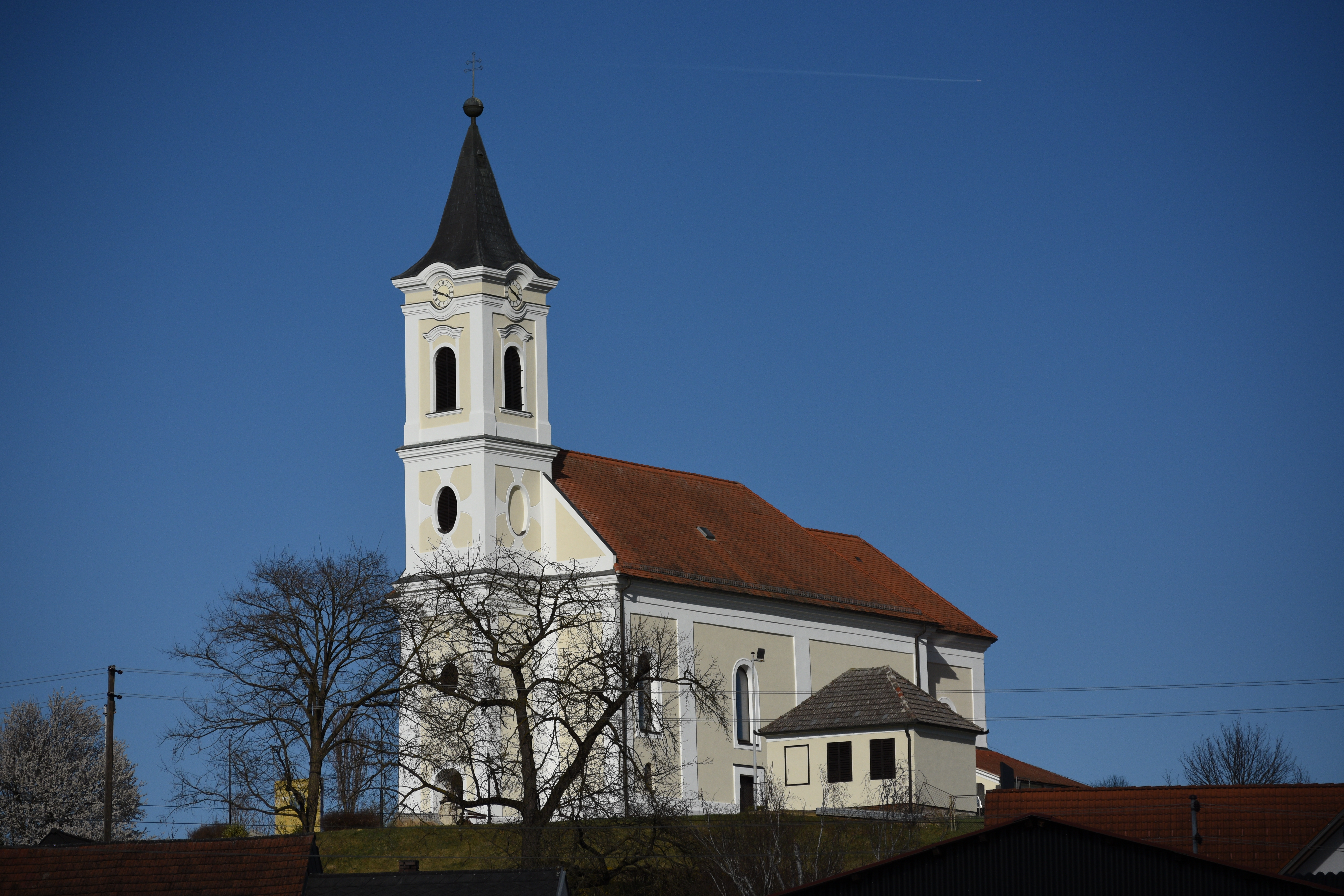 Church hl. Leonhard (Litzelsdorf)